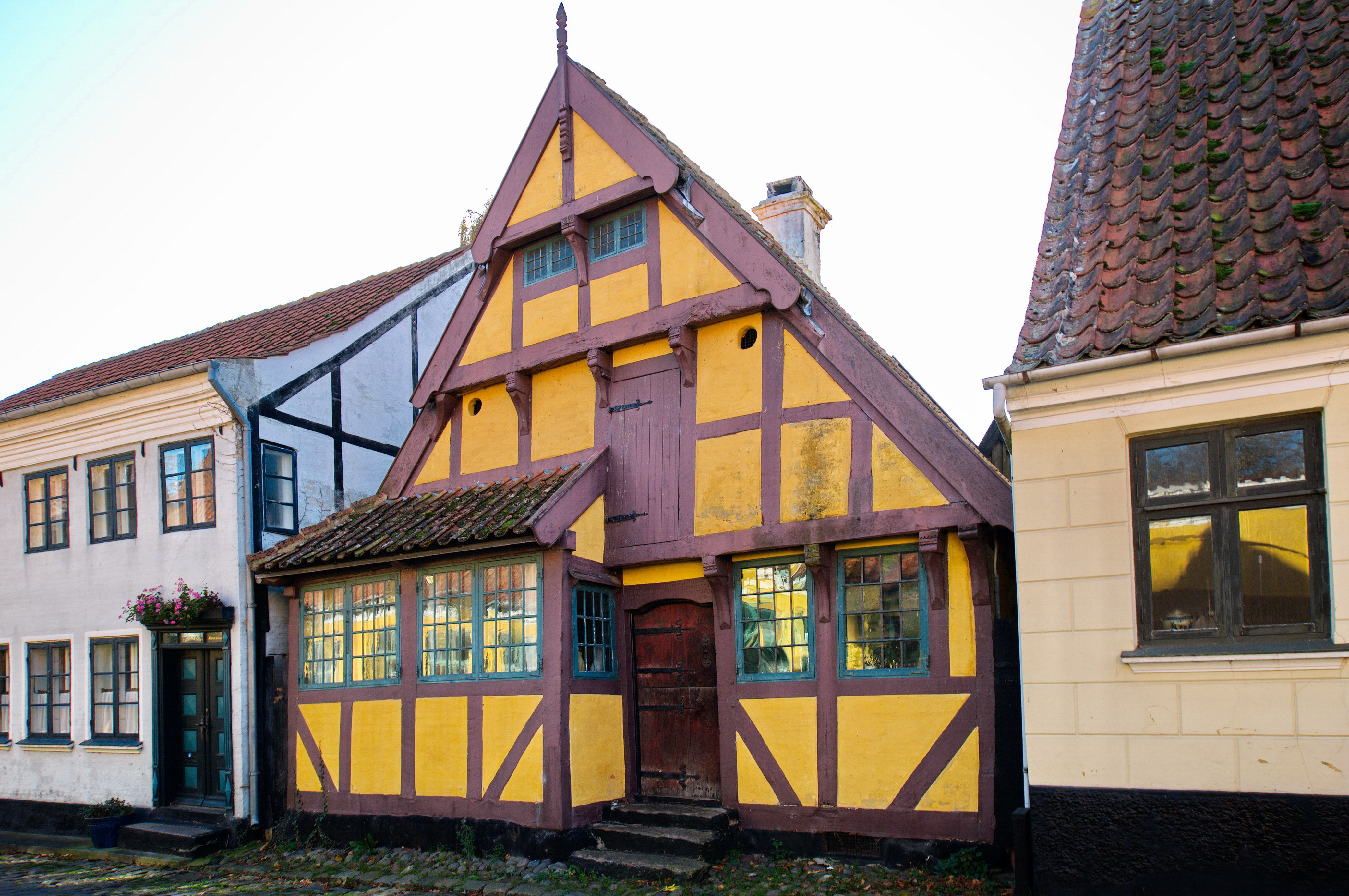 Timber framing in Ærøskøbing